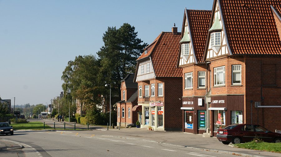 Lundby Hovedgade, the mainstreet in Lundby, a village in southern part of Sjælland, Denmark (Vordingborg Commune).